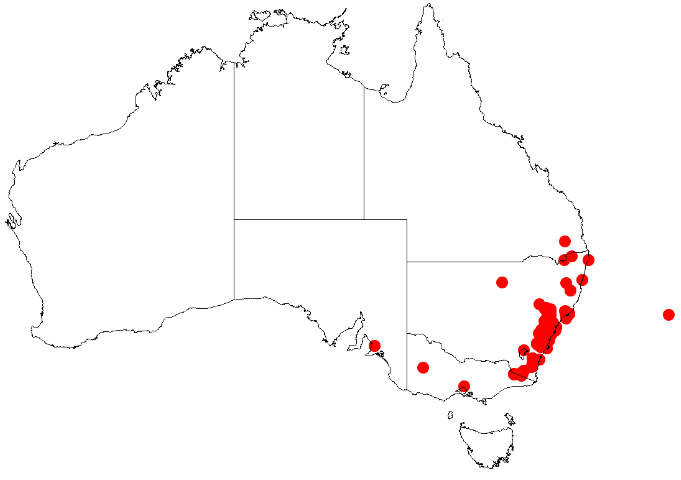 Acacia binervia Occurrence data from Australasian Virtual Herbarium downloaded from on 8 December 2018